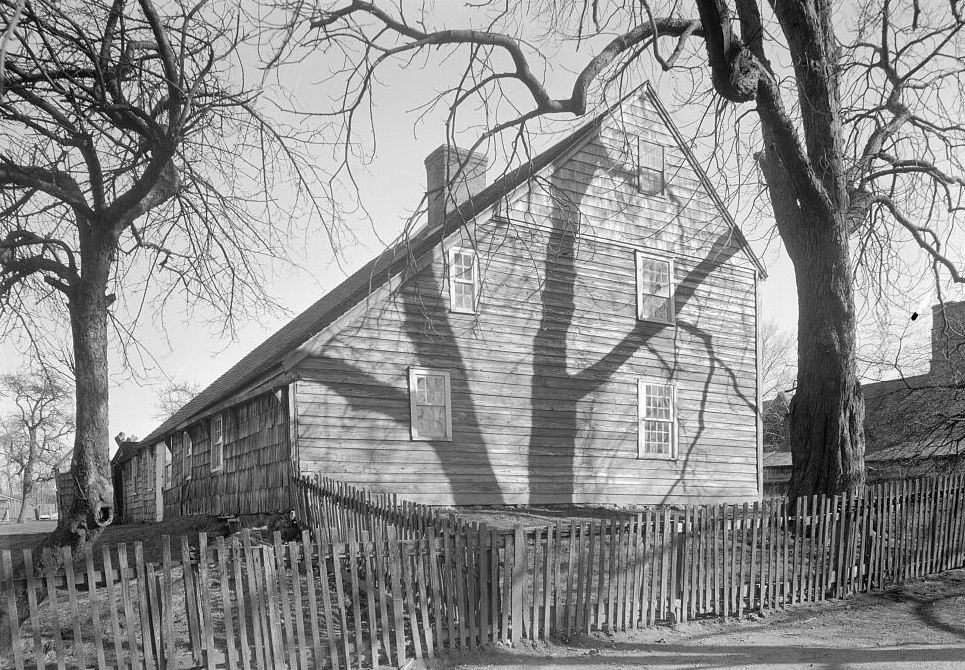 Photograph of the Mulford House, probably built about 1680 for Josiah Hobart, James Lane, East Hampton, Suffolk County, Long Island, New York. Historic American Buildings Survey, The Library of Congress, Washington, D. C.